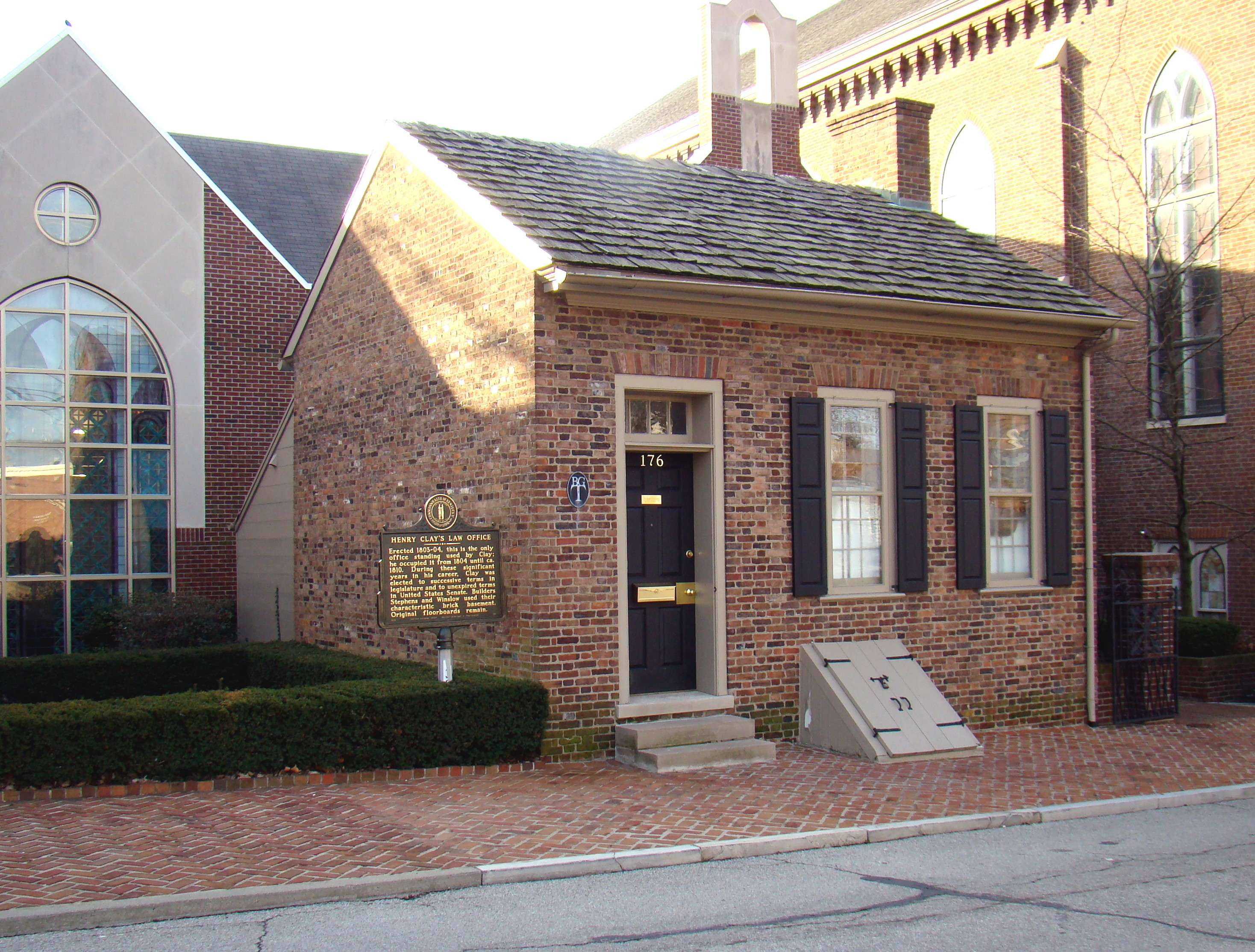 Law office used by Henry Clay from 1803 to 1810 in Lexington, Kentucky. The current address is 176 North Mill Street, Lexington Kentucky.